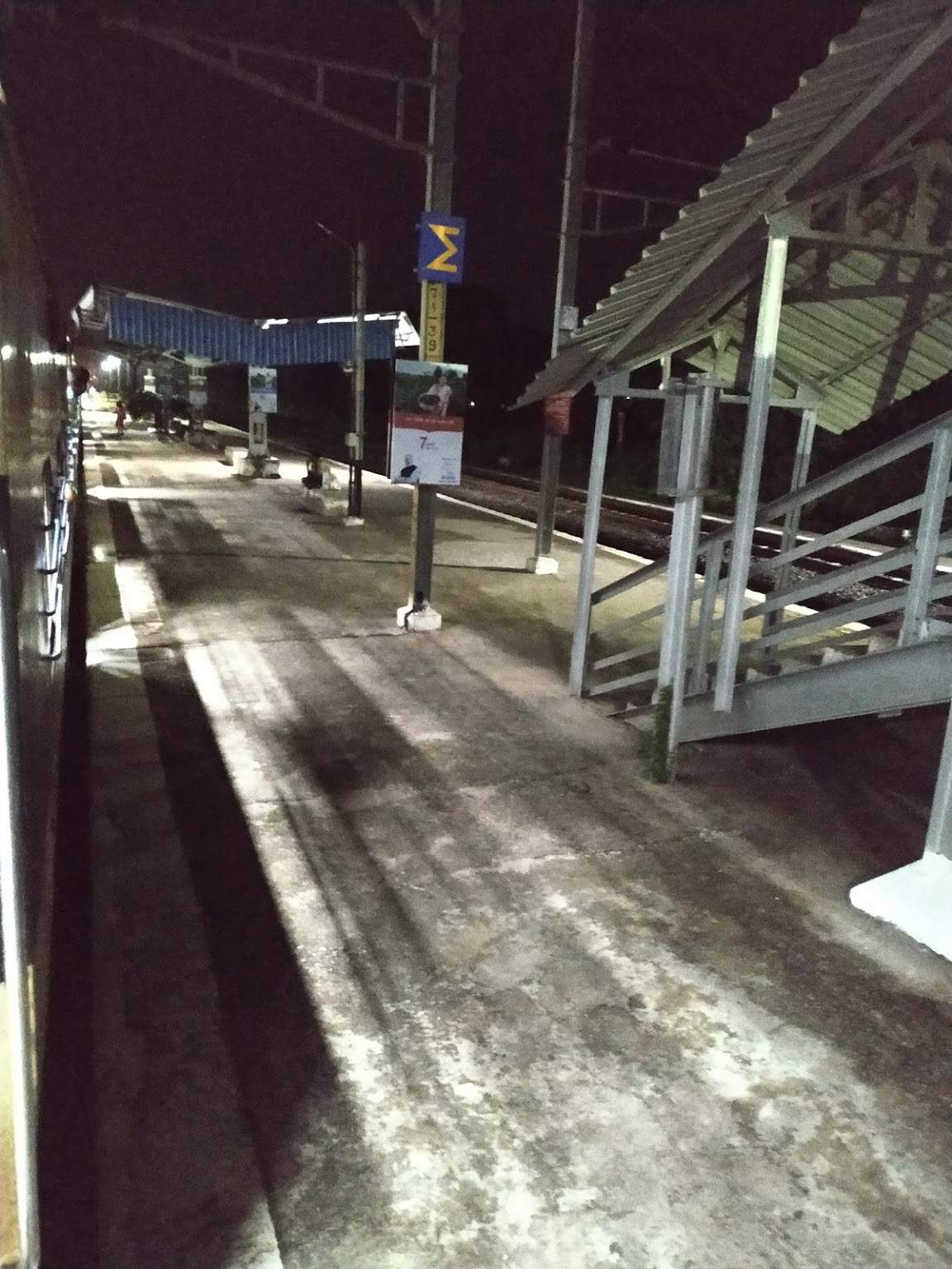 This is the Picture of Ganjam railway station